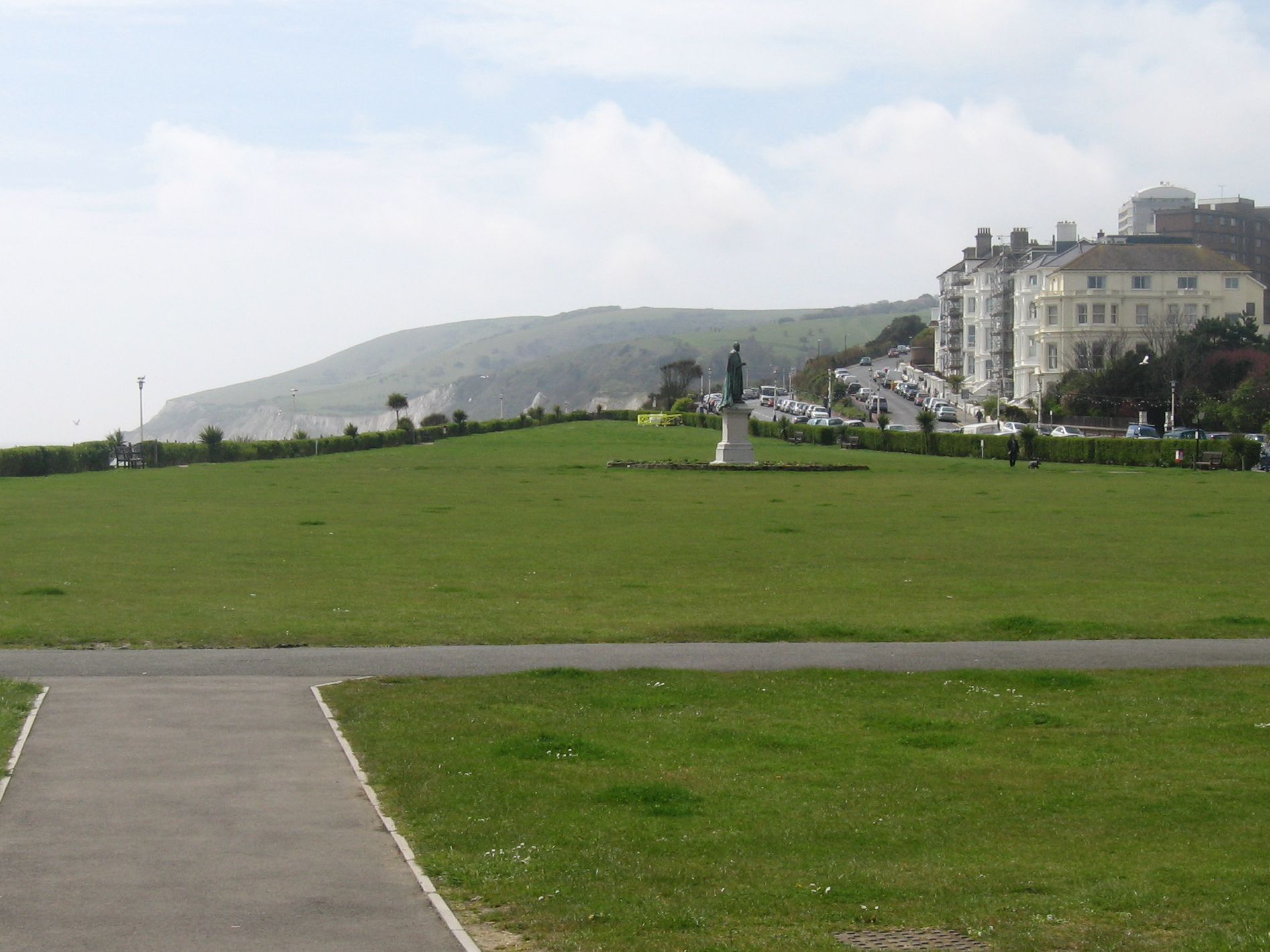 The Western Lawns, Eastbourne